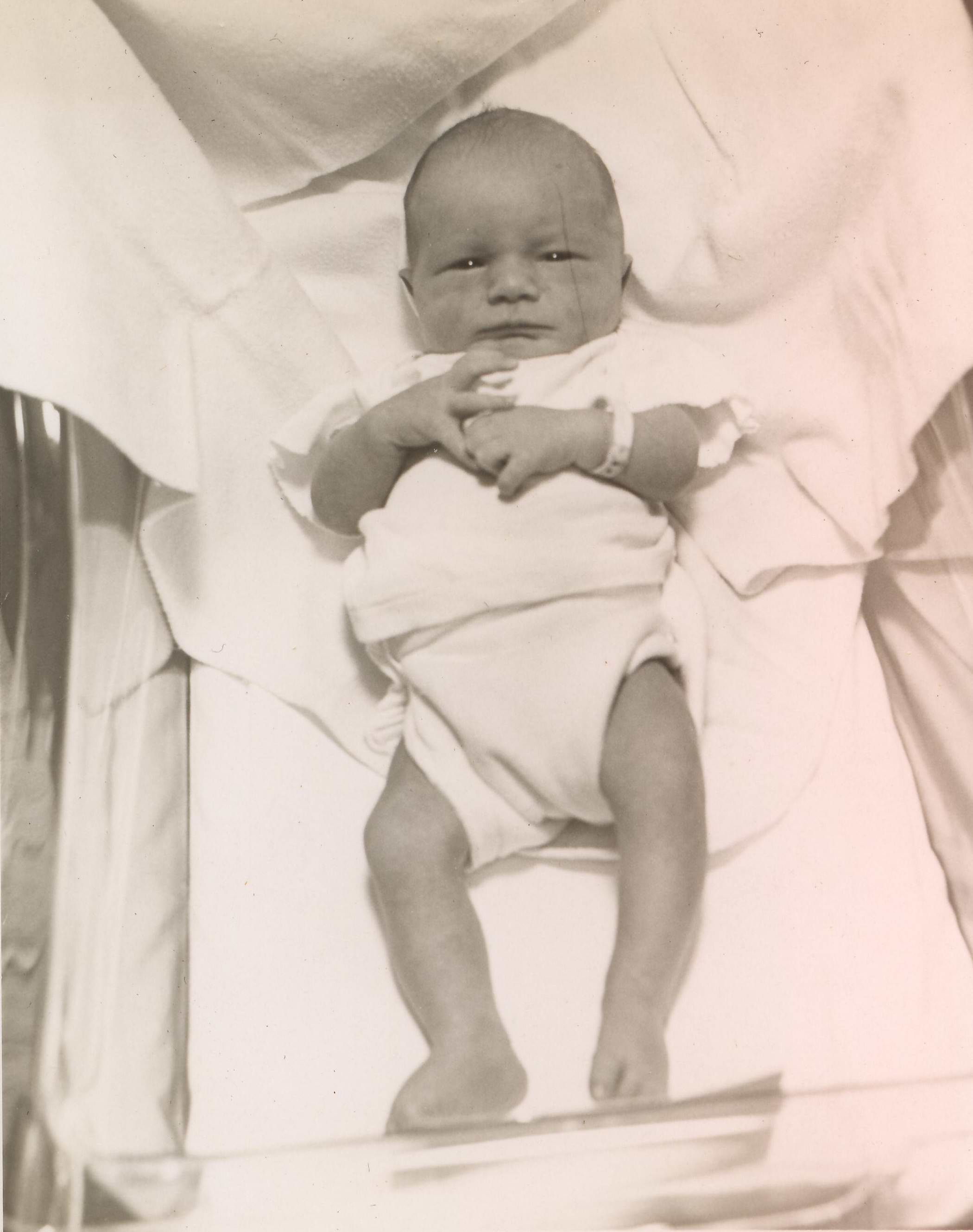 I inherited this photo. It was taken circa 1961.